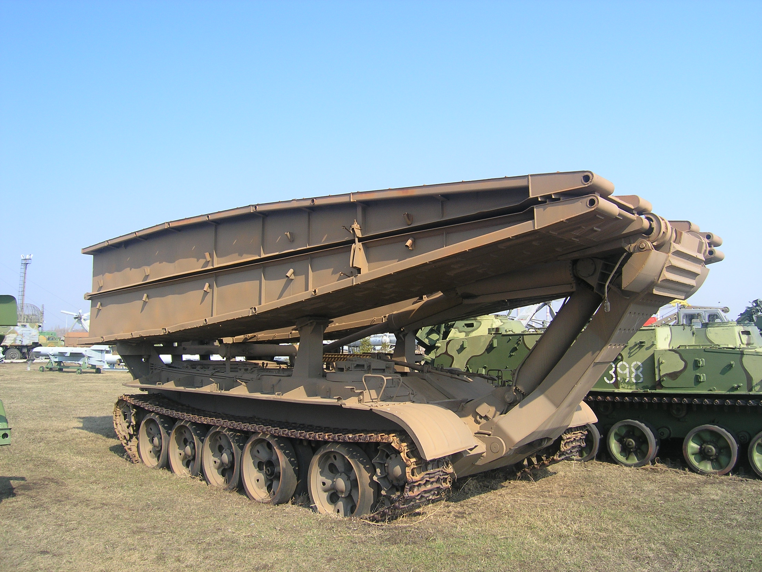 MT-55 bridgelayer in Technical museum Togliatti